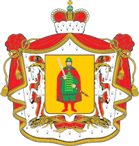 Ryazan oblast, coat of arms